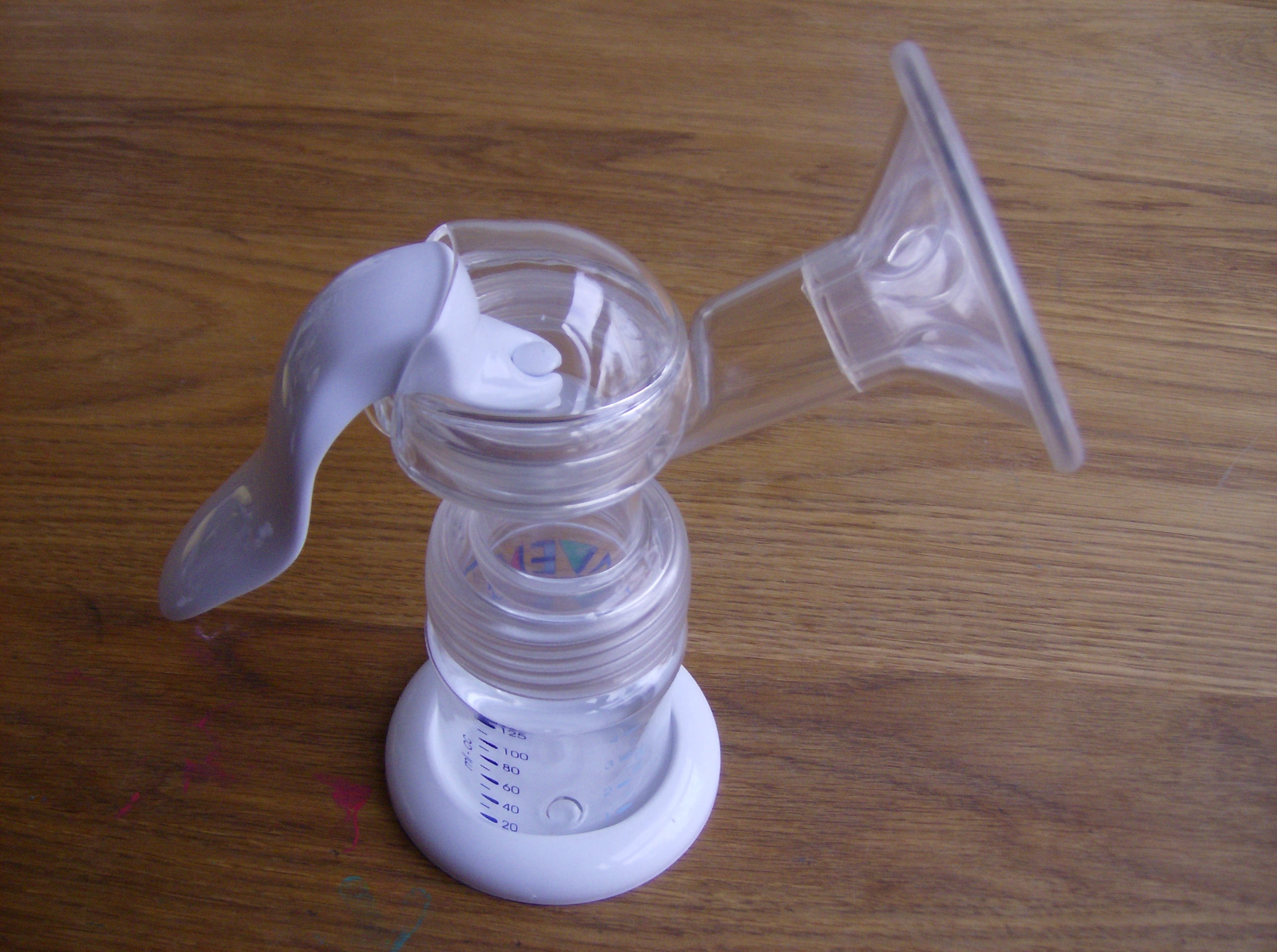 AVENT isis breast pump breastfeeding breast milk expression